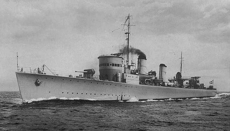 Postcard picture of the Swedish destroyer HMS Ehrenskiöld (11).